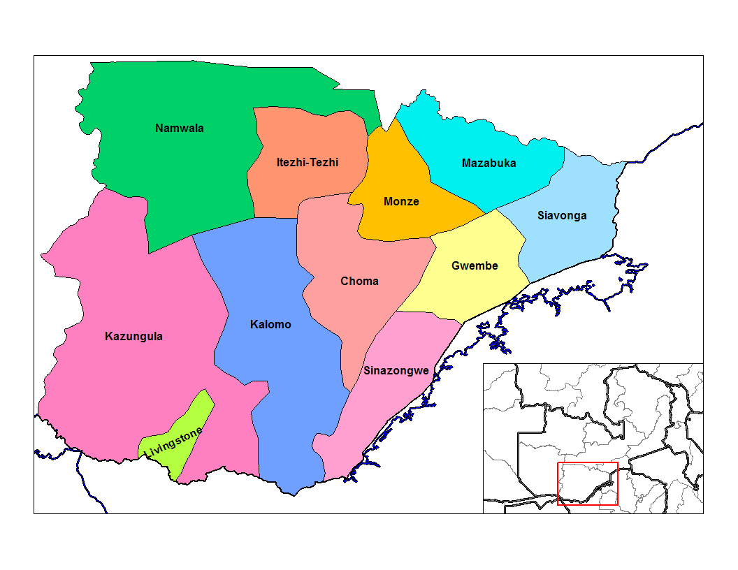 Map of the districts of Southern province in Zambia. Created by Rarelibra 15:37, 28 December 2006 (UTC) for public domain use, using MapInfo Professional v8.5 and various mapping resources.